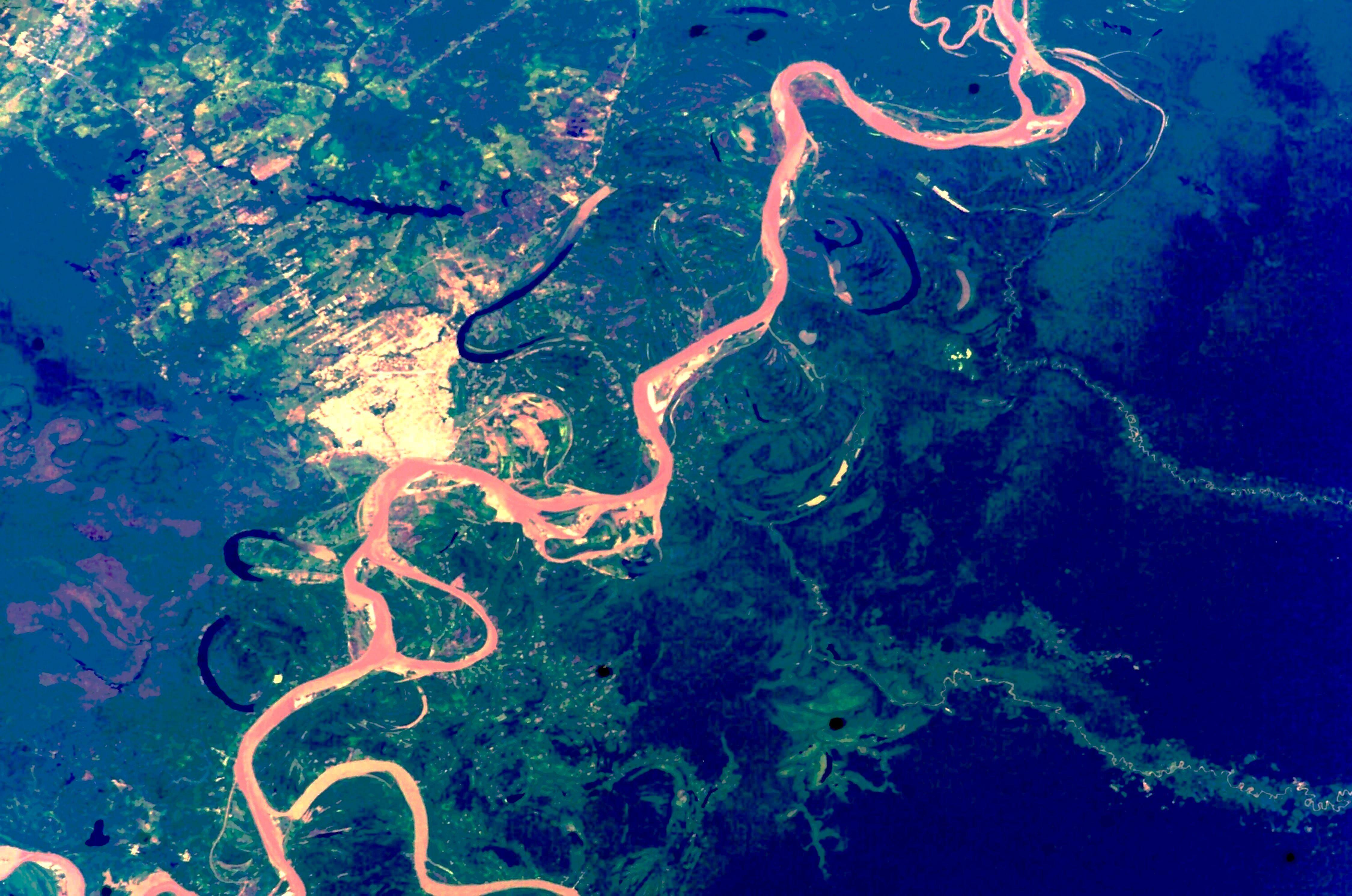 Satellite view of Pucallpa.